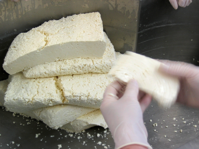 Stacking of curds during the cheddering process